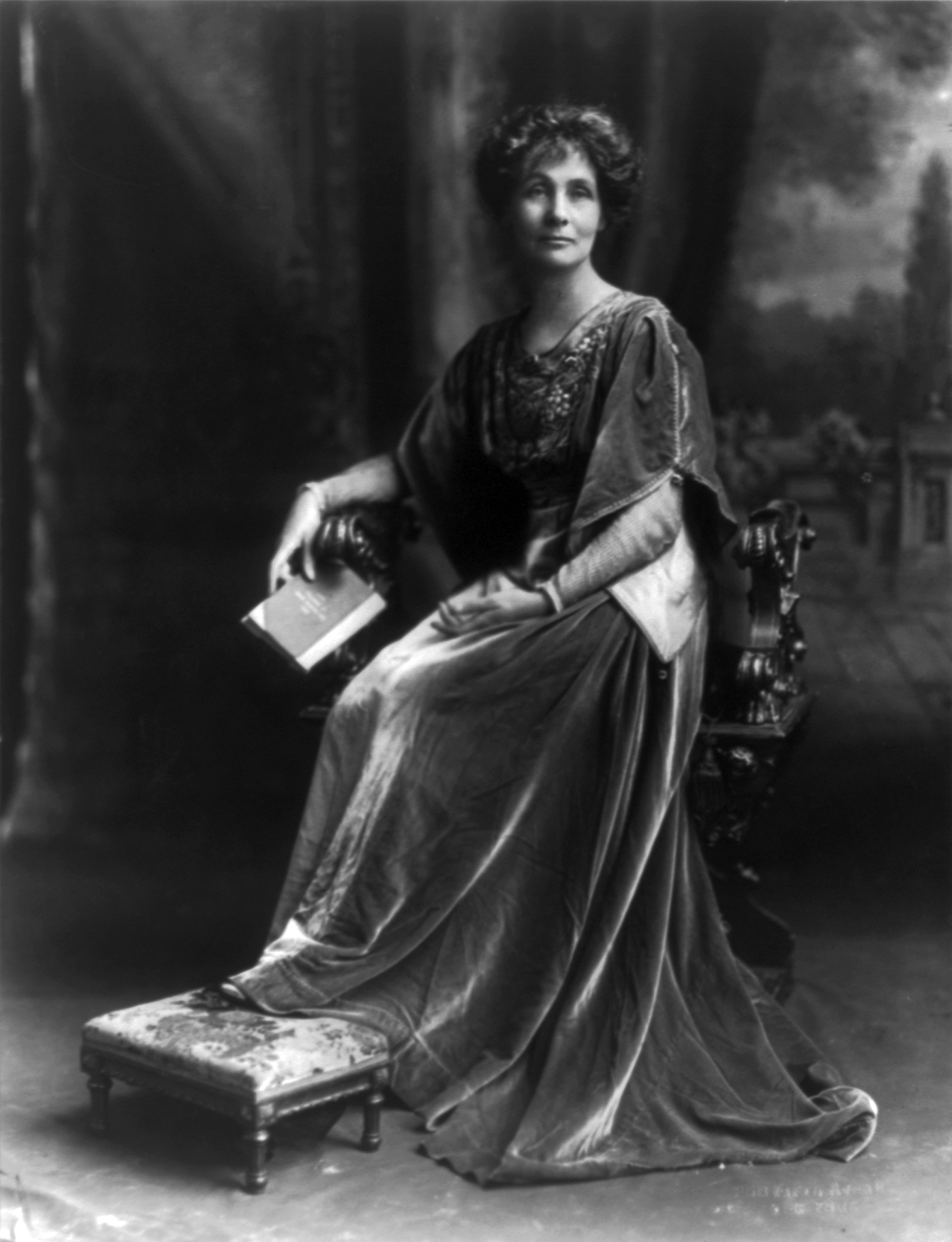 Emmeline Pankhurst, English political activist and leader of the British suffragette movement